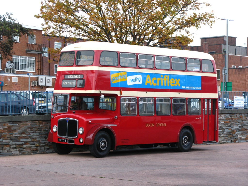 Devon General number DR781, an AEC Regent V with Metro-Cammell 59-seat body registered TTT 781 in 1956. It is seen at a bus rally in Exeter.